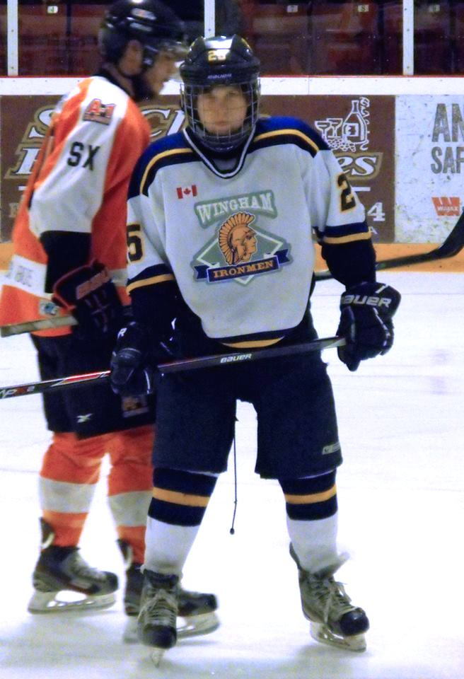 These images of OHA Jr. C action during the 2013-14 season are taken by Devan Mighton.